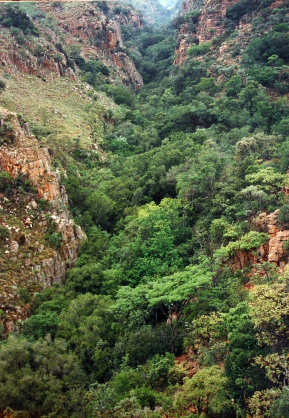 Tonquani Kloof in Magaliesberg, South Africa